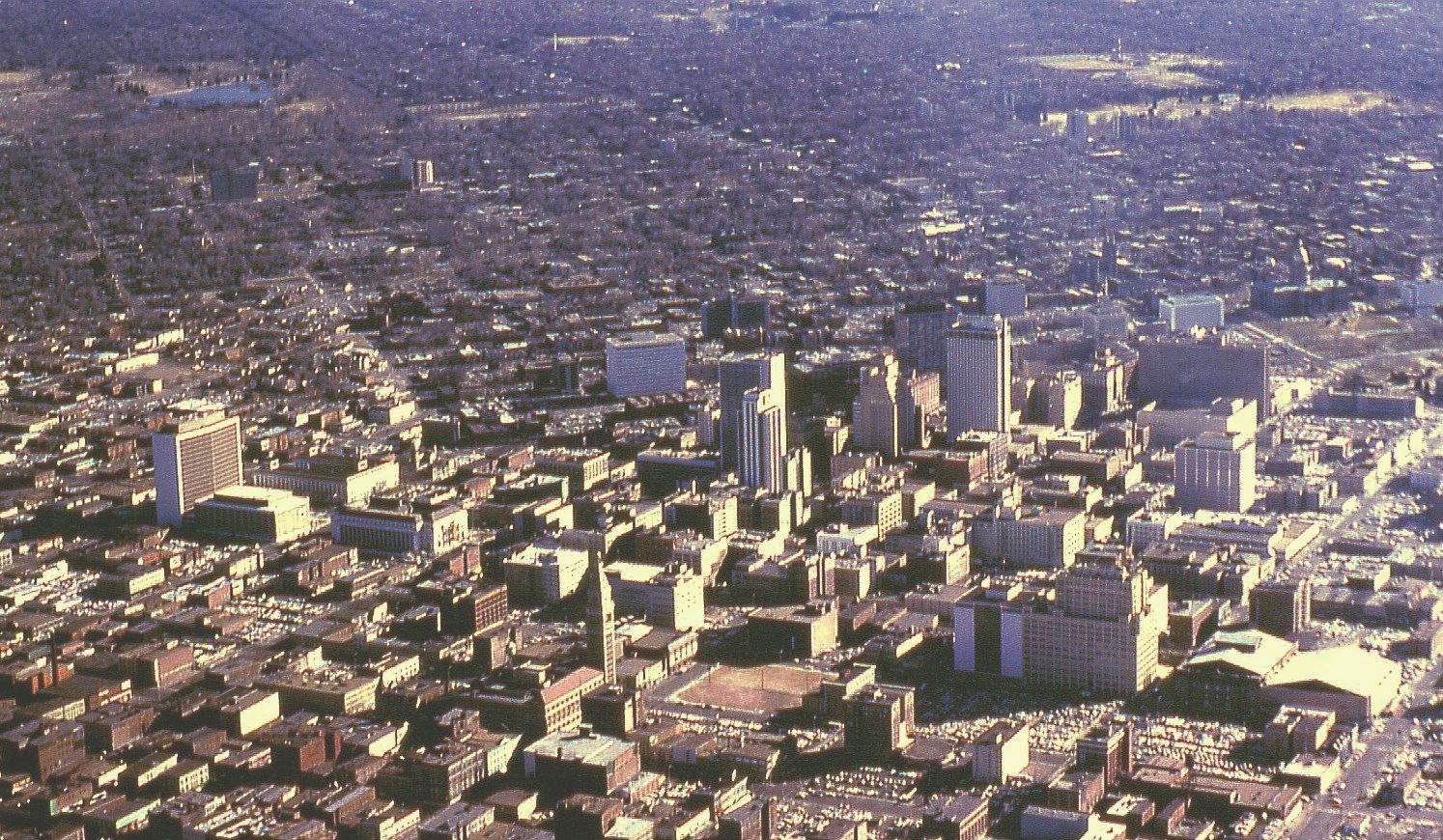 Denver, Colorado, USA, downtown skyline, looking east-south/east. Taken with a 35mm Automatic Exakta VX SLR, using Ektachrome slide film.